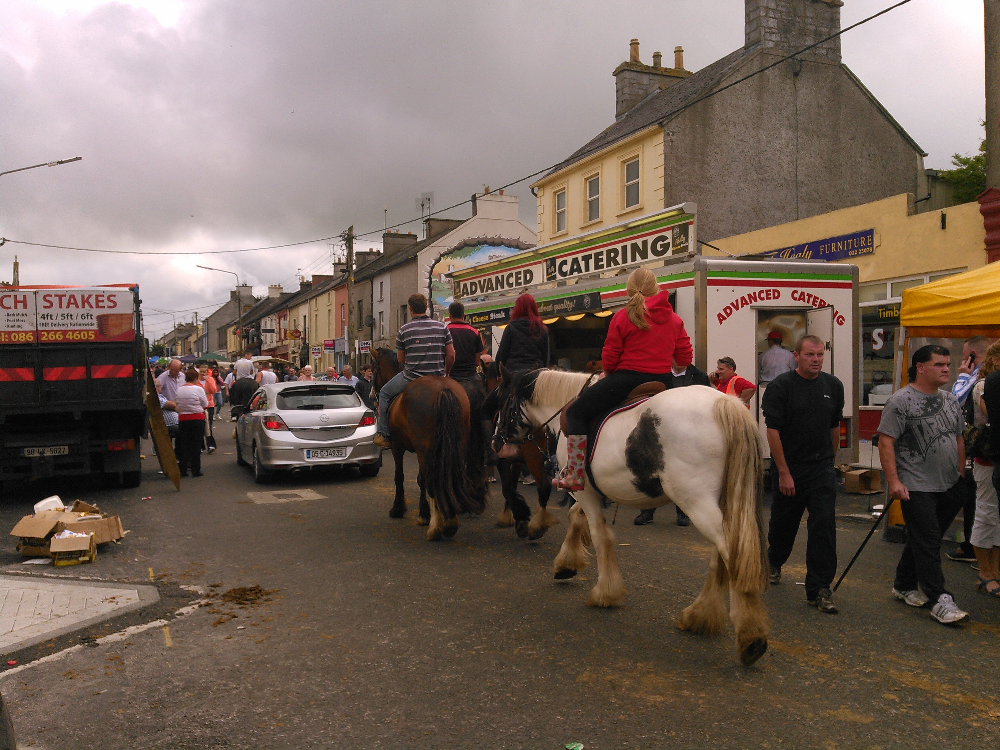 Quietgoers at Cahirmee